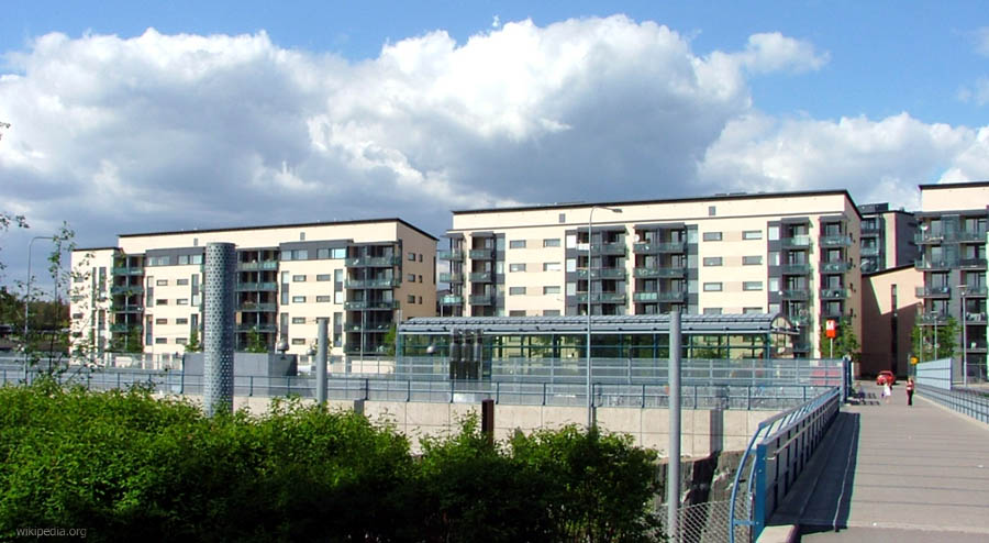 Apartment buildings of Rastilankallio, in Vuosaari, eastern Helsinki, Finland. One of the entrances to the Rastila metro station is also visible in the photo.